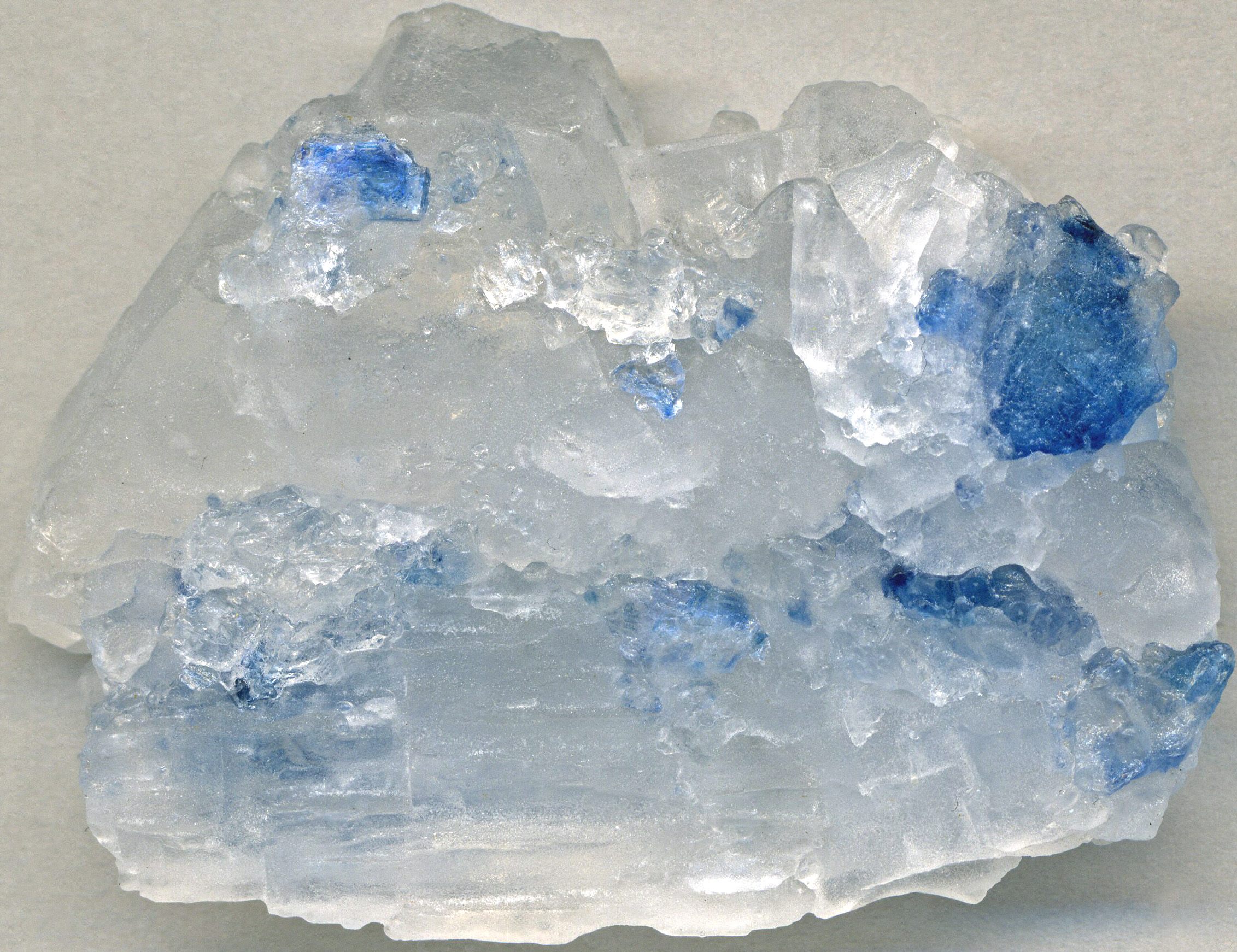 Rock salt (sedimentary halitite) from the Permian of Poland (4.8 cm across at its widest). This interesting rock is halitite, also called rock salt. As its name suggests, it is entirely composed of halite (NaCl - sodium chloride). Halitite is the most common type of evaporite, a crystalline-textured, chemical sedimentary rock formed by the evaporation of water (usually seawater), and the precipitation of dissolved minerals. Most halitites are clear to whitish to grayish. This sample is from Poland's Klodawa Salt Mine and has intensely blue-colored halite in places. The coloration is not due to impurities, but rather to structural defects at the atomic level. Blue-colored halite and rock salt tend to occur in proximity to sylvite (KCl) and other potassium salt minerals. Potassium-40 irradiation from these minerals causes atomic-scale defects, resulting in blue coloration. Blue halite at this mine also occurs in tectonically deformed rock salt, where tectonite formation has occurred (extreme stretching). Geologic unit & age: Klodawa Salt Dome, Zechstein Formation, Upper Permian Locality: Klodawa Salt Mine, ~1 to 2 km south of the town of Klodawa, central Poland Most info. from: Zelek et al. (2014) - Lattice deformation of blue halite from Zechstein evaporite basin: Klodawa Salt Mine, central Poland. Mineralogy and Petrology 108: 619-631.